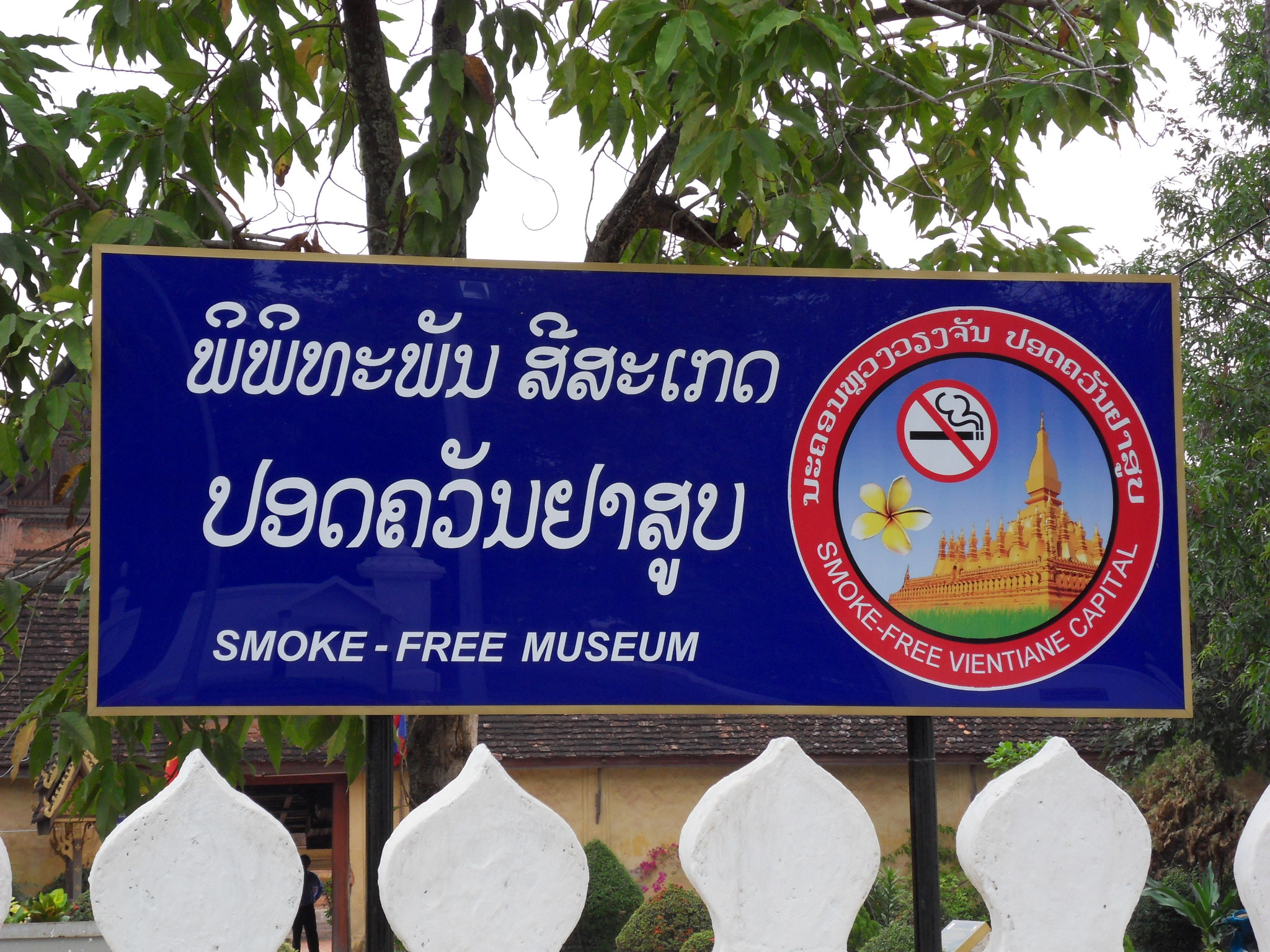 Smoke-Free Temple (Vat Sisaket) à Vientiane, Laos